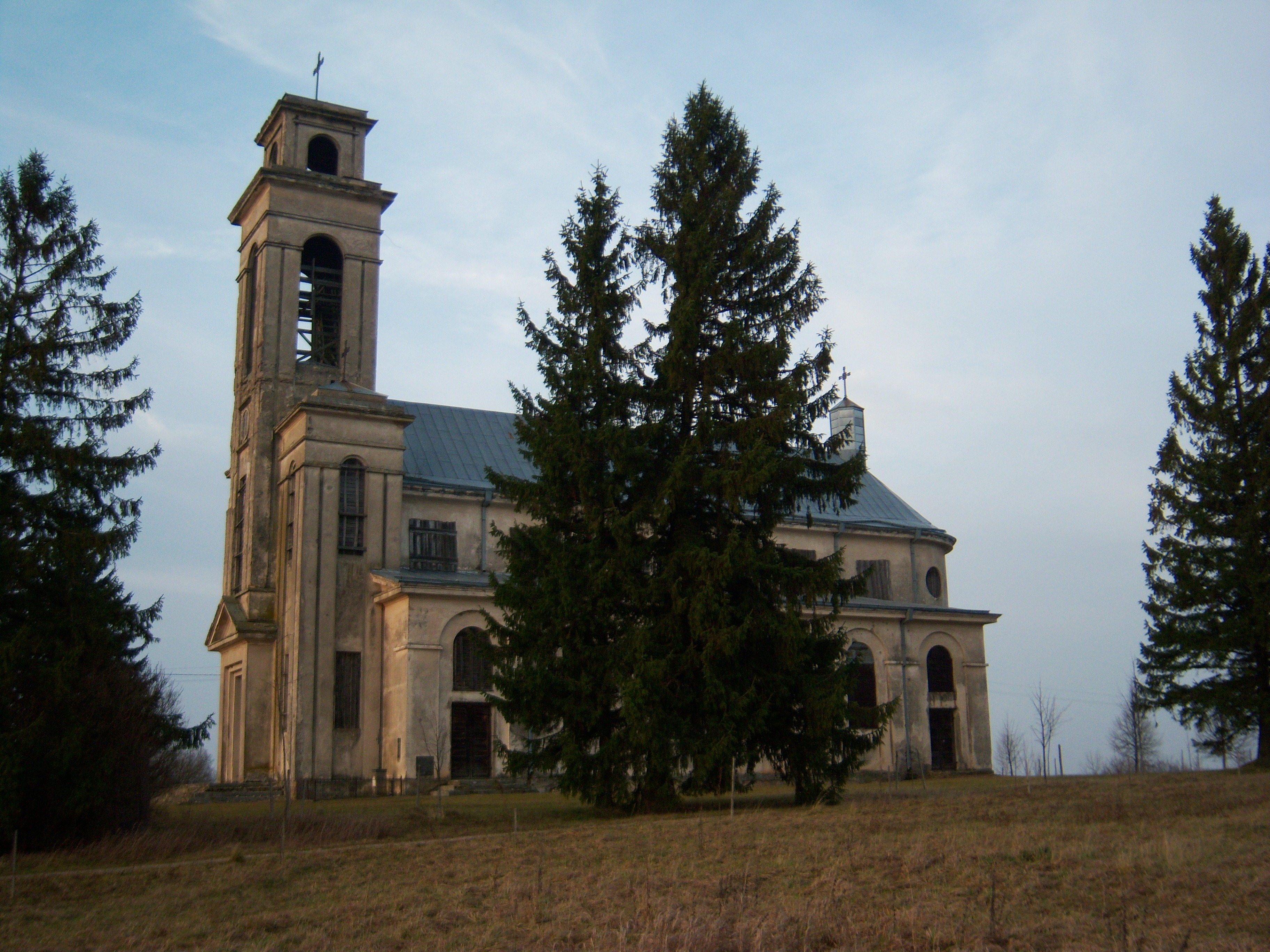 Roman Catholic Church in Palendriai, Kelmė District, Lithuania